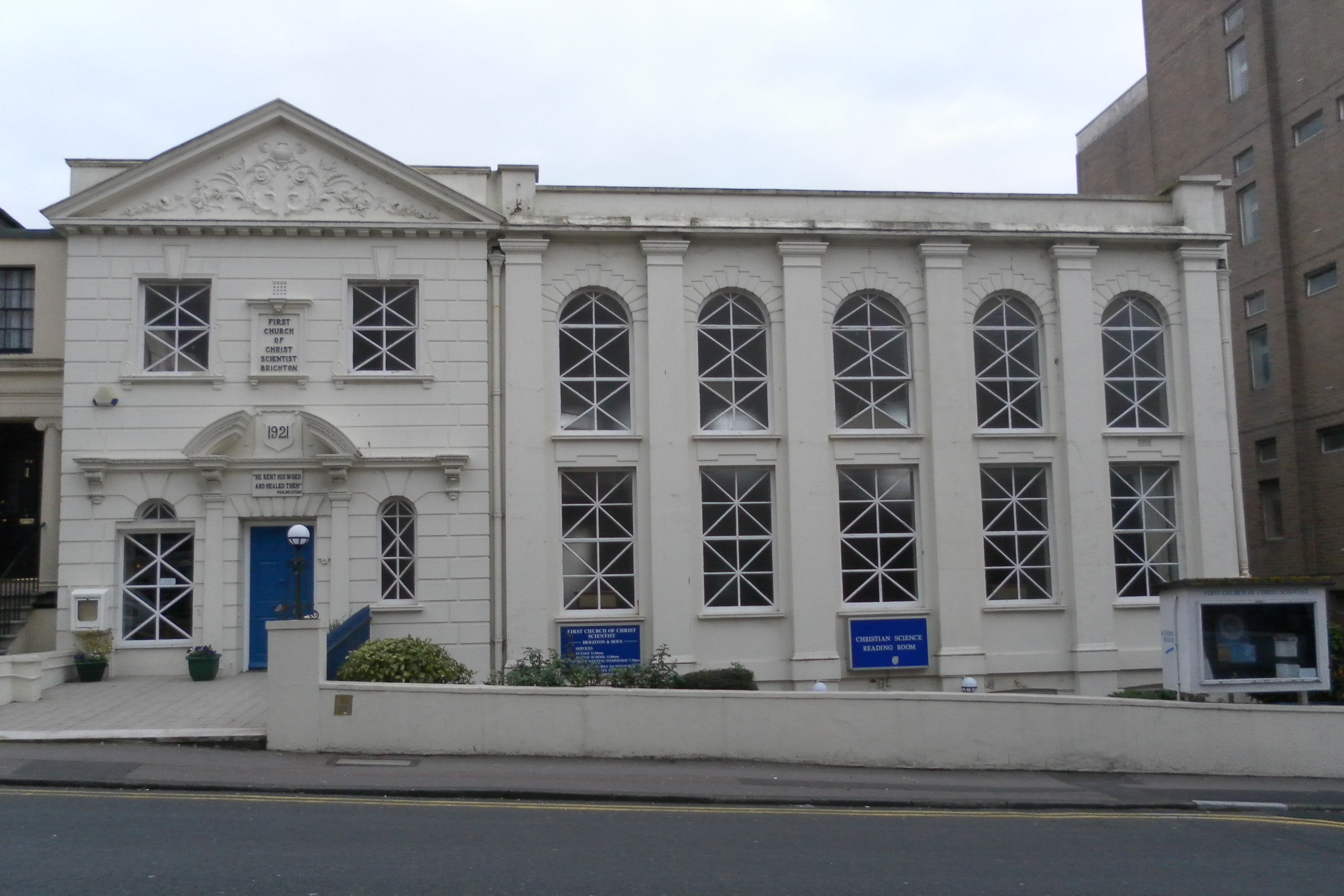 First Church of Christ, Scientist, Montpelier Road, Brighton, City of Brighton and Hove, England. Converted from a 19th-century house in 1921.